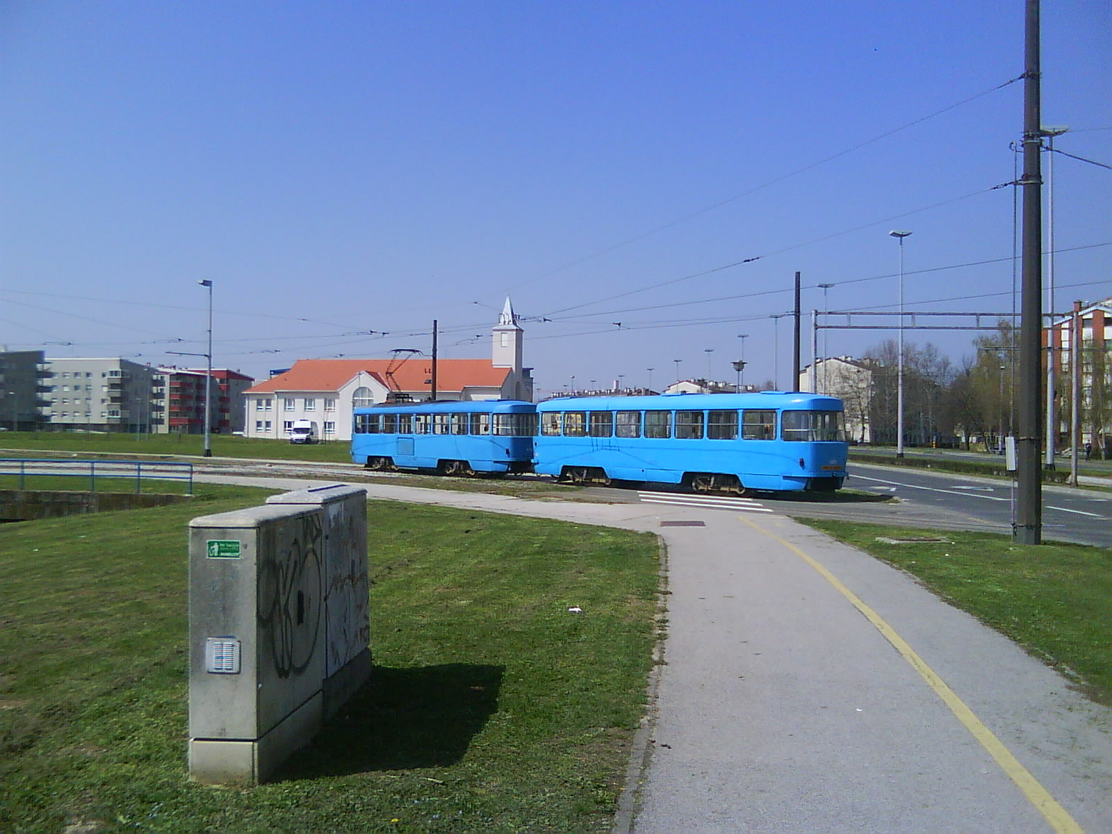 Tatra T4YU on line 14 in Zagreb makes a turn towards Jarun terminal. Because of a traffic accident in Novi Zagreb, trams on lines 7 and 14 had to be redirected to Jarun terminal.